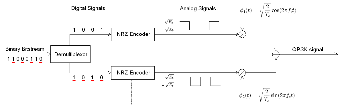 Block Diagramm of QPSK transmitter.